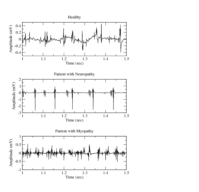 3 different electromyograms.